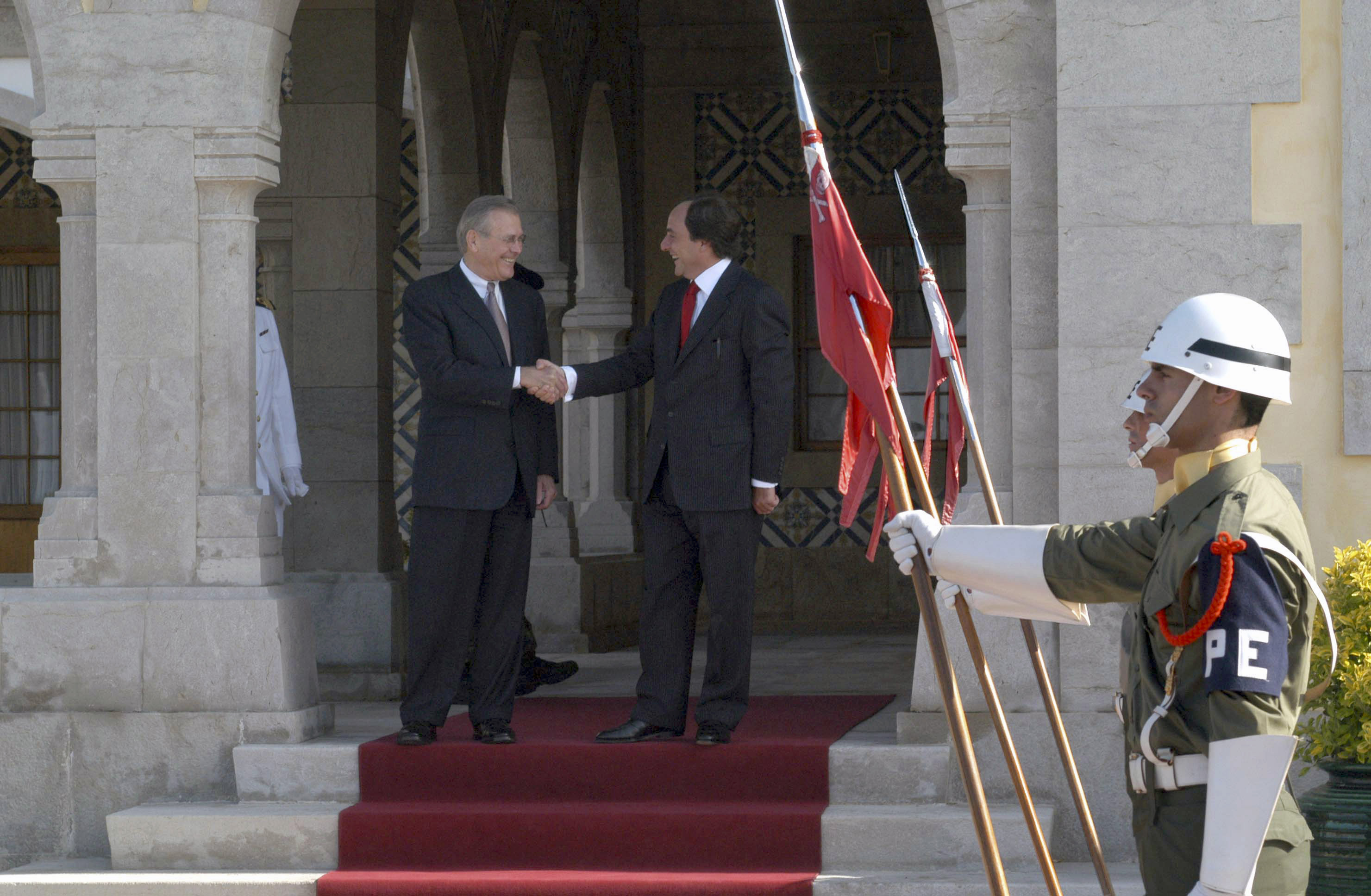 Portuguese Minister of State and Defense Paulo Portas (right), welcomes the Honorable Donald H. Rumsfeld, U.S. Secretary of Defense (left), at Fort Sao Juliao, Portugal, on Jun. 10, 2003.